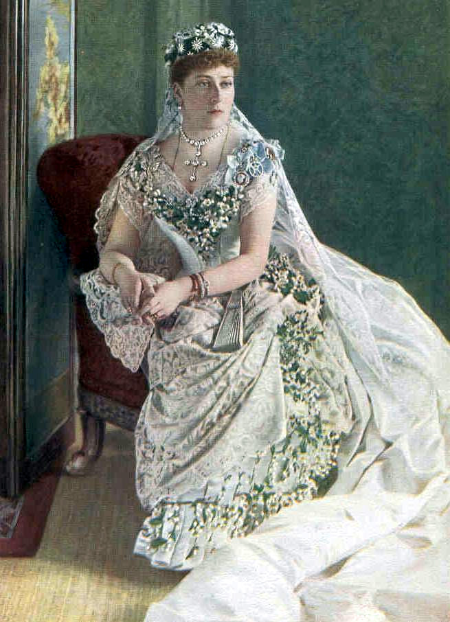 Princess Beatrice, coloured bookplate from her wedding, 1885